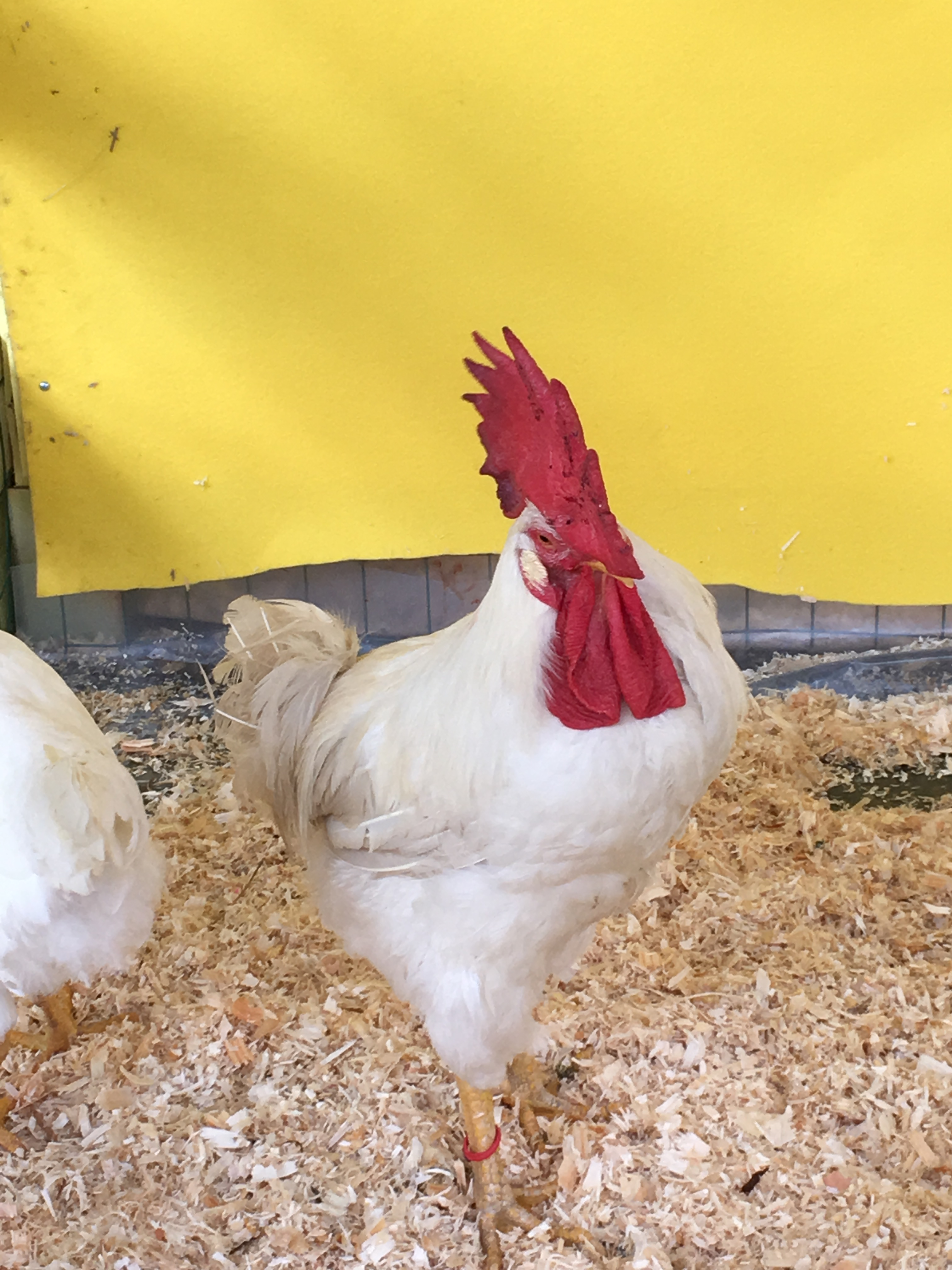 Valdarnese Bianca cock at the Rural Festival, Gaiole in Chianti, Tuscany, Italy, 17–18 September 2016